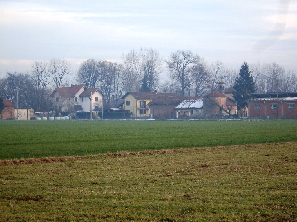 Racconigi: Canapile